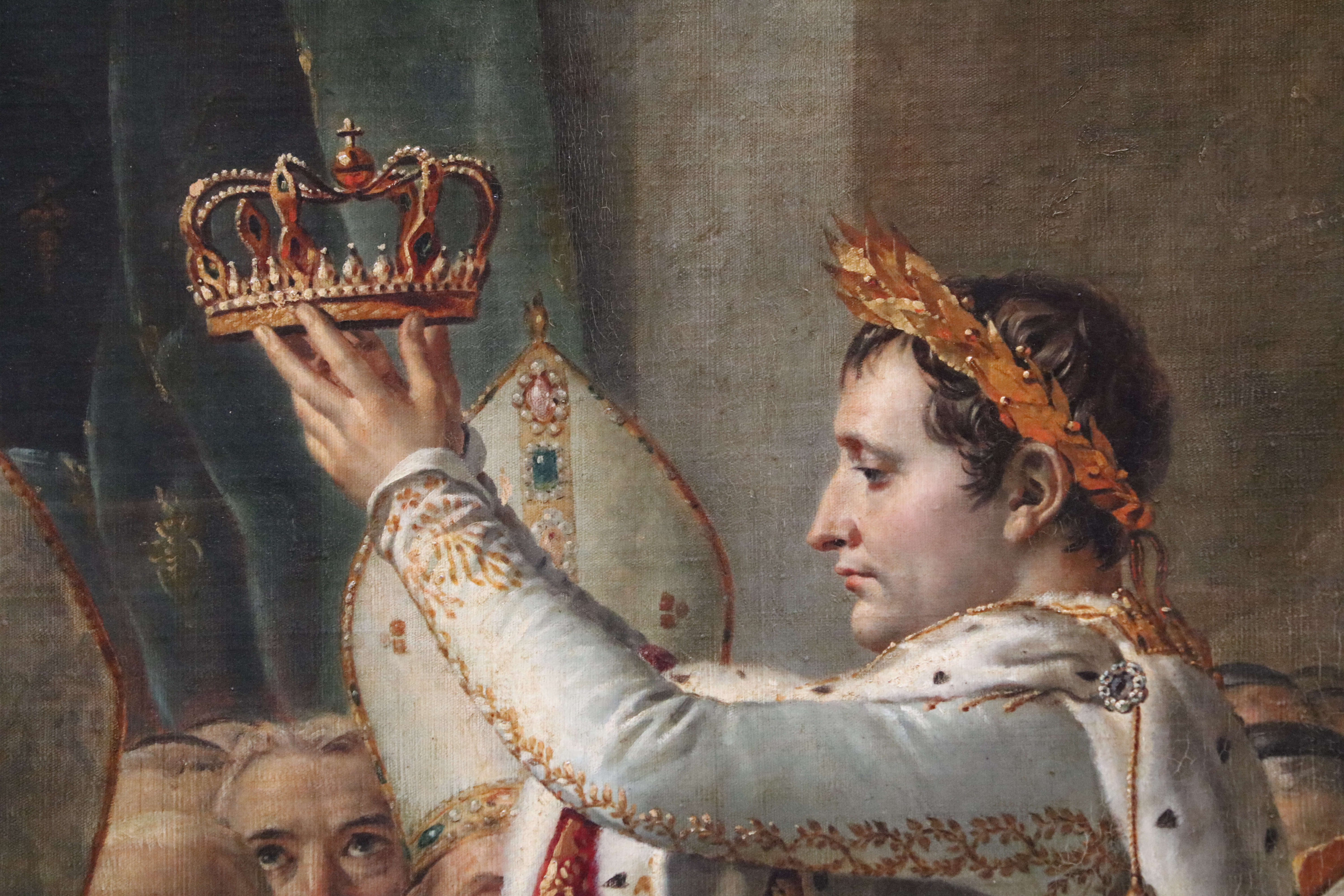 Détail de l'empereur Napoléon Ier